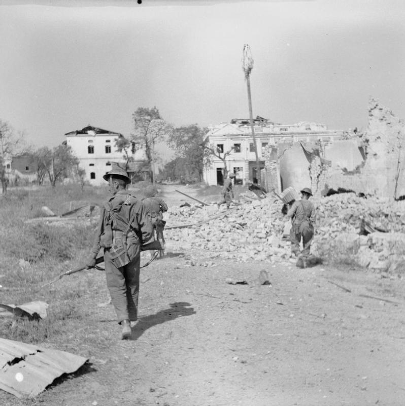 The British Army in Burma 1945 Men of the West Yorkshire Regiment advance throught the ruins of Meiktila, 28 February 1945.